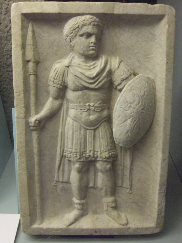 Roman marble relief, early 3rd century AD, World Museum Liverpool, England. Depicting a general in the Roman Army, possibly emporer Caracalla who ruled from 198 to 217AD.